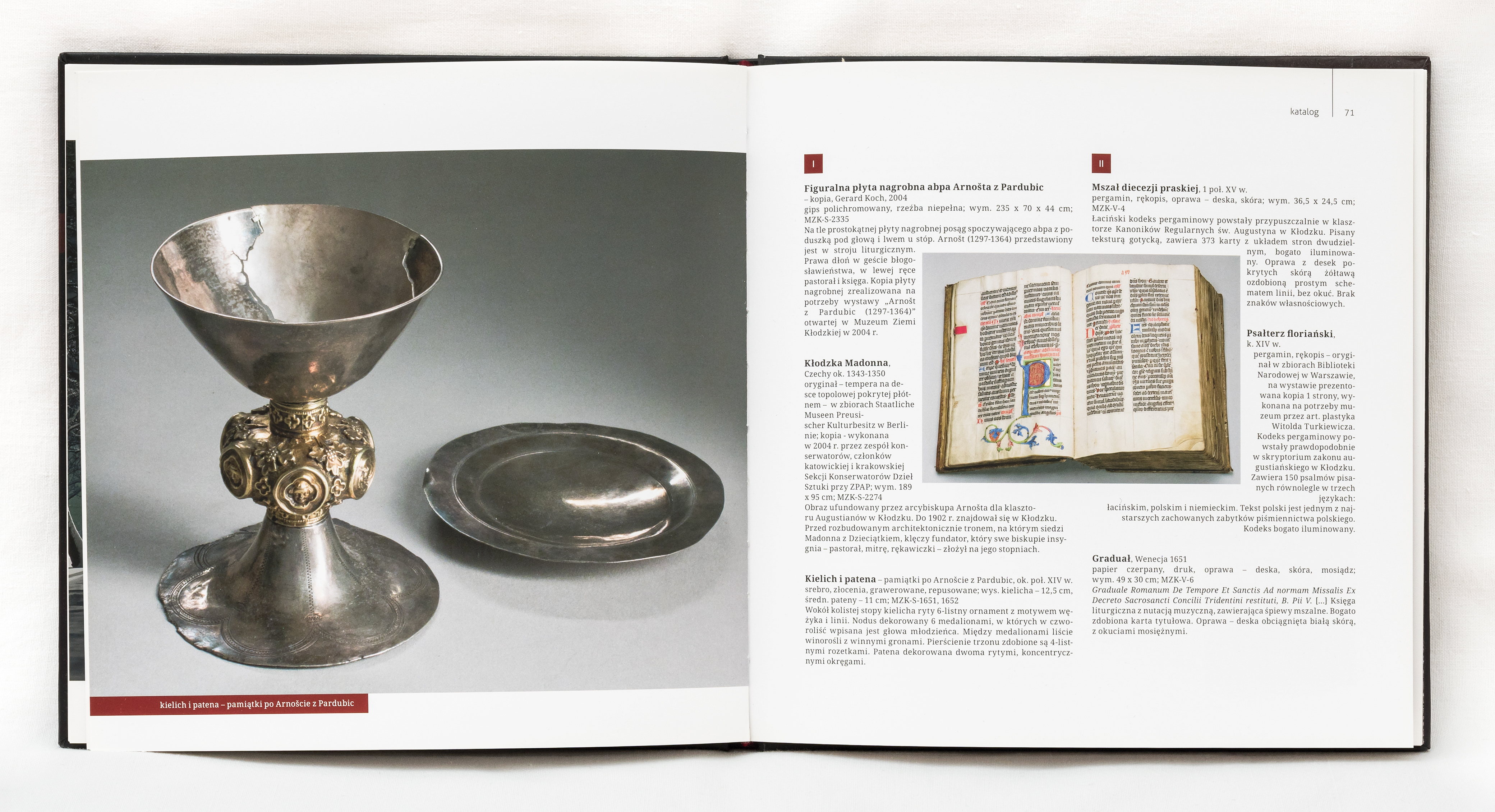 Catalog of the exhibition "From the history of Kłodzko", published by the Museum of the Kłodzko Land in Klodzko